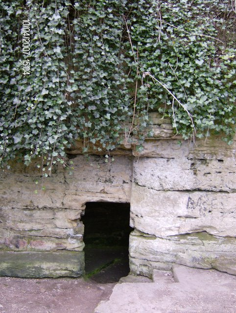 St Robert's Cave A view of the holy man's cave entrance.